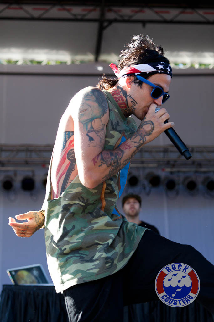 Bumbershoot Music & Arts Festival 2012, Day 2 (9/2/12) Seattle, WA. Photos not posted in order of performance. Yelawolf, Wanda Jackson & The Dusty 45's, Ty Curtis Band, Theoretics, Thenewno2, The Young Evils, Niki & The Dove, Mudhoney, Lee Fields & The Expressions, Ian Hunter and The Rant Band, Gold Leaves, Fruit Bats, Eldridge Gravy & The Court Supreme, Deep Sea Diver, Civil Twilight, Blitzen Trapper, Barcelona and AM + Shawn Lee. Photos by Colby Perry